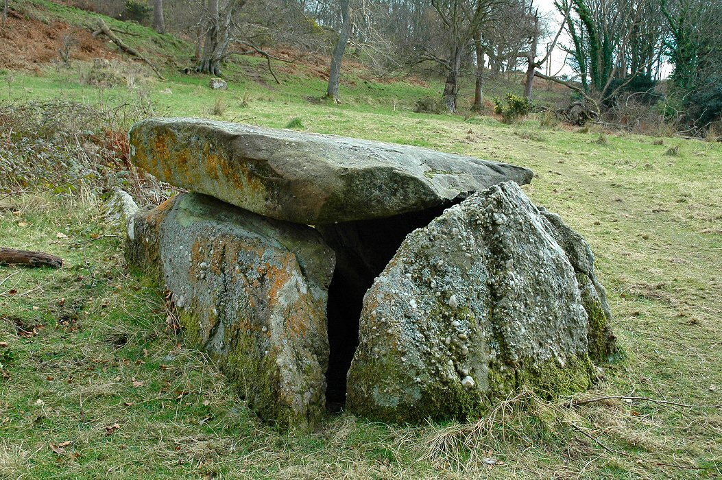 Image of Haylie neolithic tomb. Photograph by David Kelly.